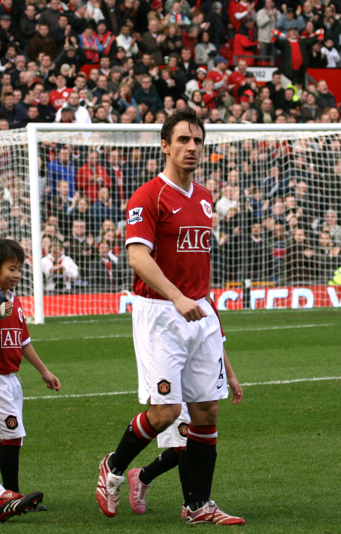 Gary Neville playing for Manchester United F.C.